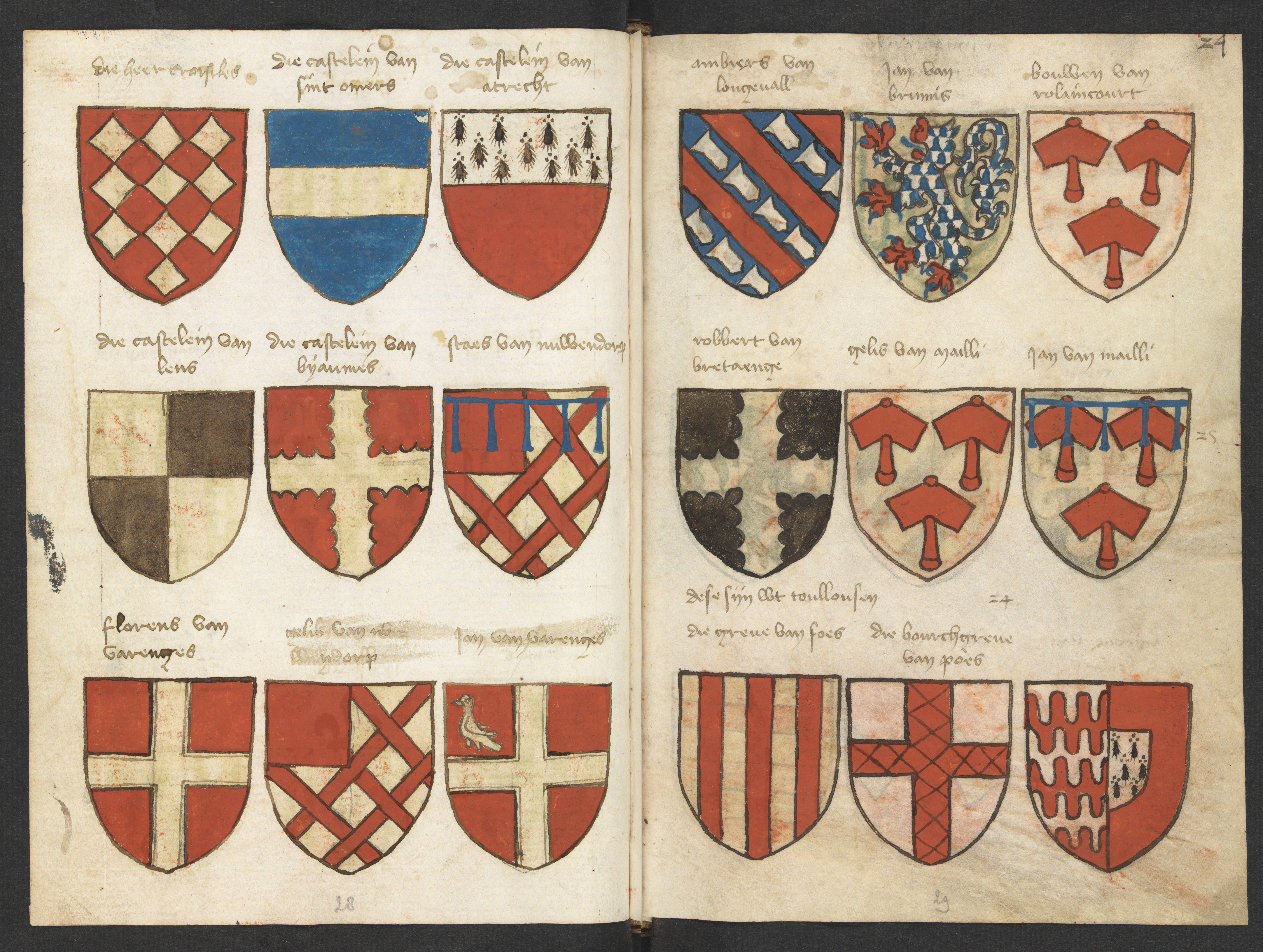 Lefthand side folio 023v; righthand side folio 024r from the Beyeren armorial / Wapenboek Beyeren